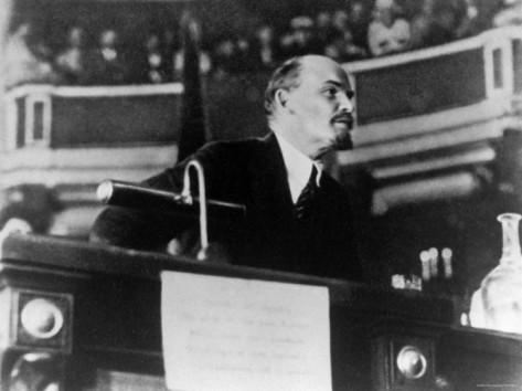 Lenin delivering a speech at the Second Congress of the Comintern, 1920.